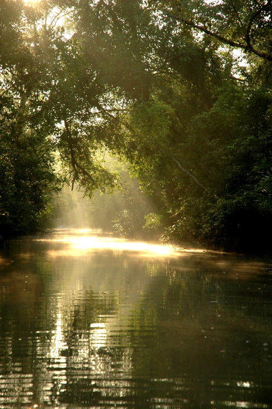 Sun filters through the trees to be reflected on water in the Sunderbans in Bangladesh.